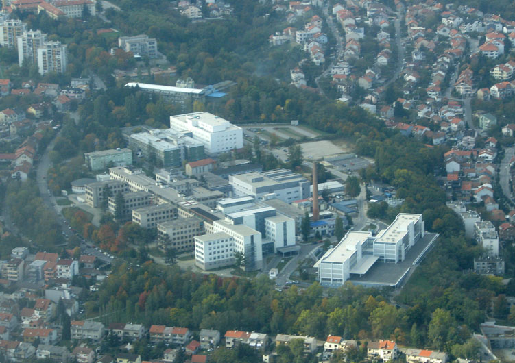 Rebro Hospital, Zagreb, from the air